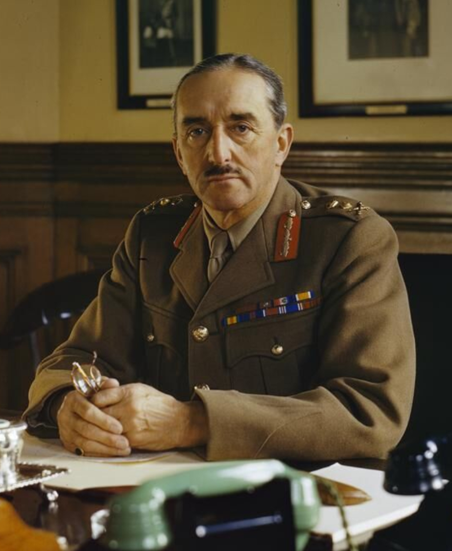 General Sir Alan Brooke, Chief of General Staff, 1942 The Chief of General Staff, General Sir Alan Brooke at his desk in the War Office in London.